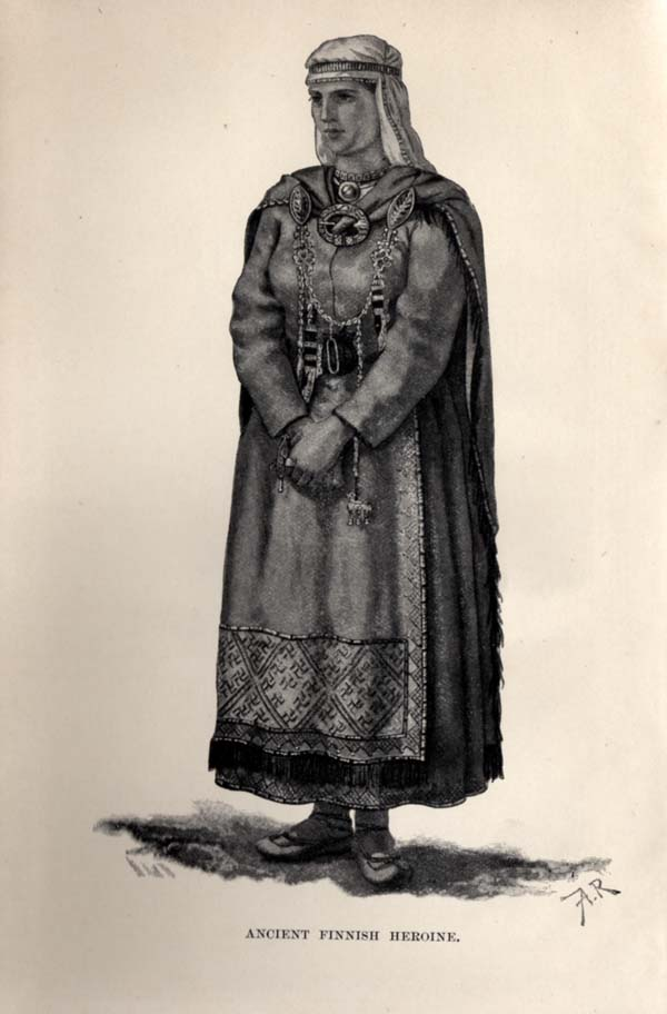 Scans of the 1888 translation of Kalevala into English. Ancient Finnish Heroine. Illustration from inside front of Volume 2 of Kalevala. Translated by John Martin Crawford, published 1888.